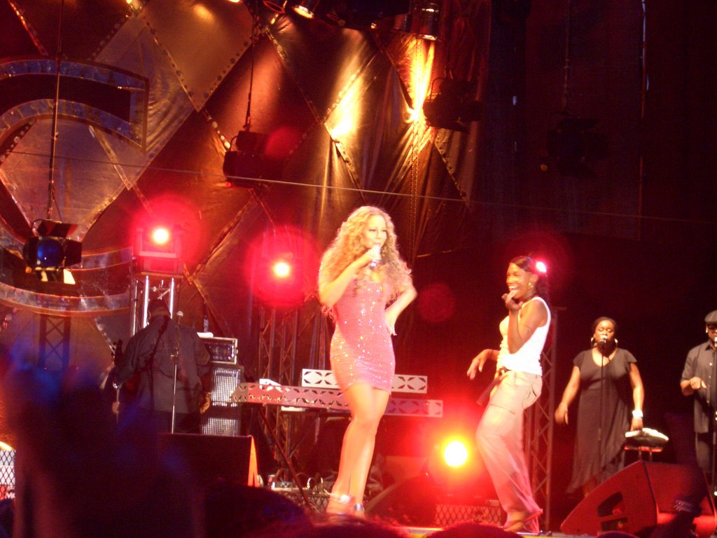 Mariah Carey at a concert in 2005.